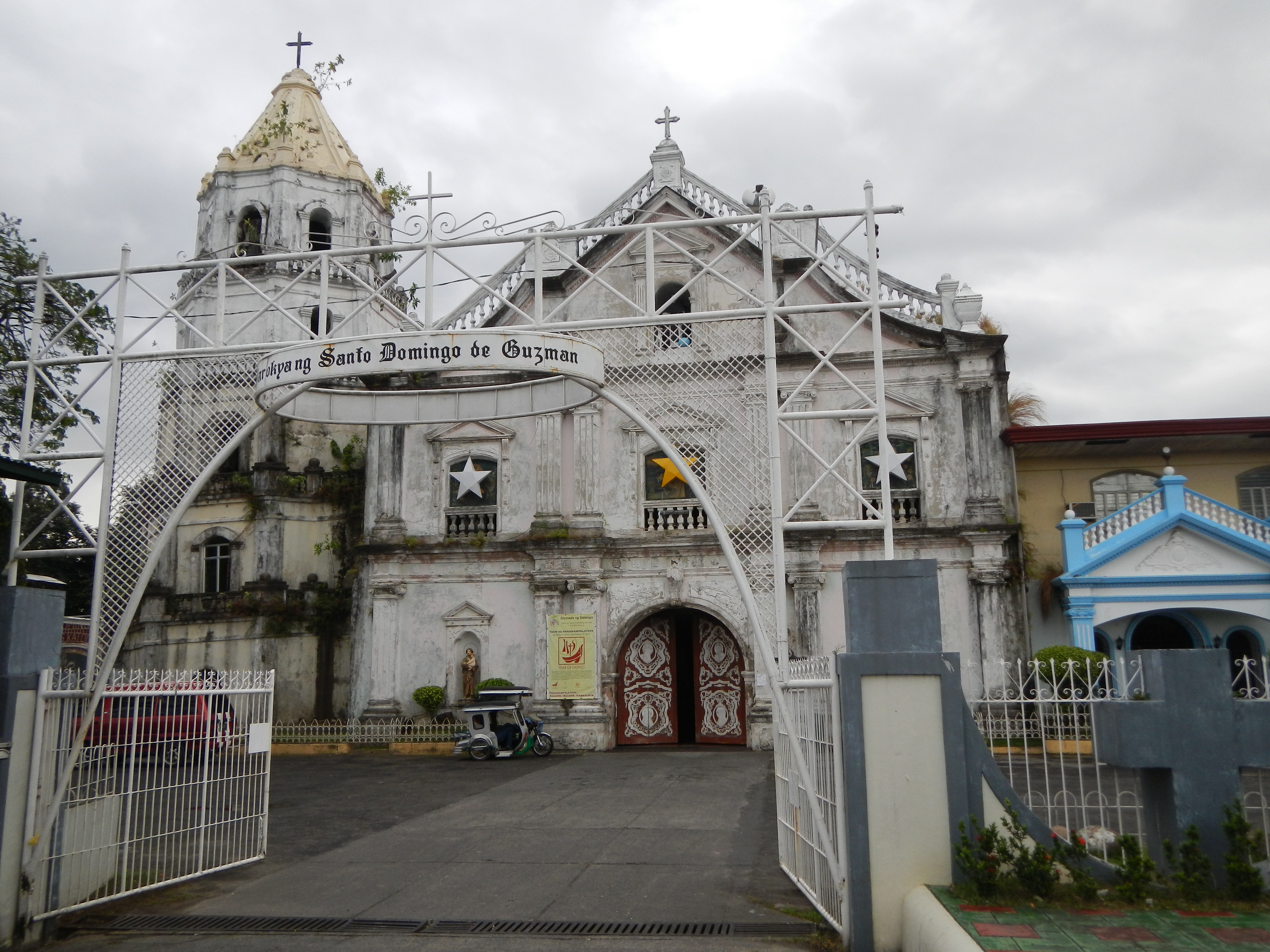 1587 Parish Church of St. Dominic de Guzman (Abucay, 2114 Bataan, Philippines) Pop.: 22,849 Cath.: 19,501 Titular: St. Dominic de Guzman, August 8 Parish Priest: Msgr. Hernando Guanzon succeeding Father Antonio Quintos[1][2][3] The 421-year-old church constructed in 1587 in the rich Spanish style of the day, and a living witness to the massacre of more than 200 native defenders from the hands of Dutch invaders on June 16, 1647. The church is one of the oldest in the Philippines and housed the first printing press which outdated any single printing press in the United States.[4] Titular: St. Dominic de Guzman, August 8 Parish Priest: Father Antonio Quintos.[5]II. Vicariate of St. Dominic de Guzman, Roman Catholic Diocese of Balanga[6][7] [8][9] (Dioecesis Balangensis) Suffragan of San Fernando, Pampanga Created: March 17, 1975. Canonically Erected: November 7, 1975. Comprises the whole civil province of Bataan. Titular: St. Joseph, Husband of Mary, April 28. Bishop Most Reverend Ruperto Cruz Santos, DD[10][11]